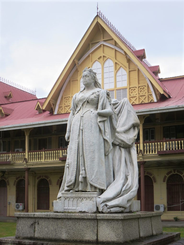 A marble statue of Queen Victoria dating from 1894 stands before the High Court (1887) in Georgetown, Guyana.